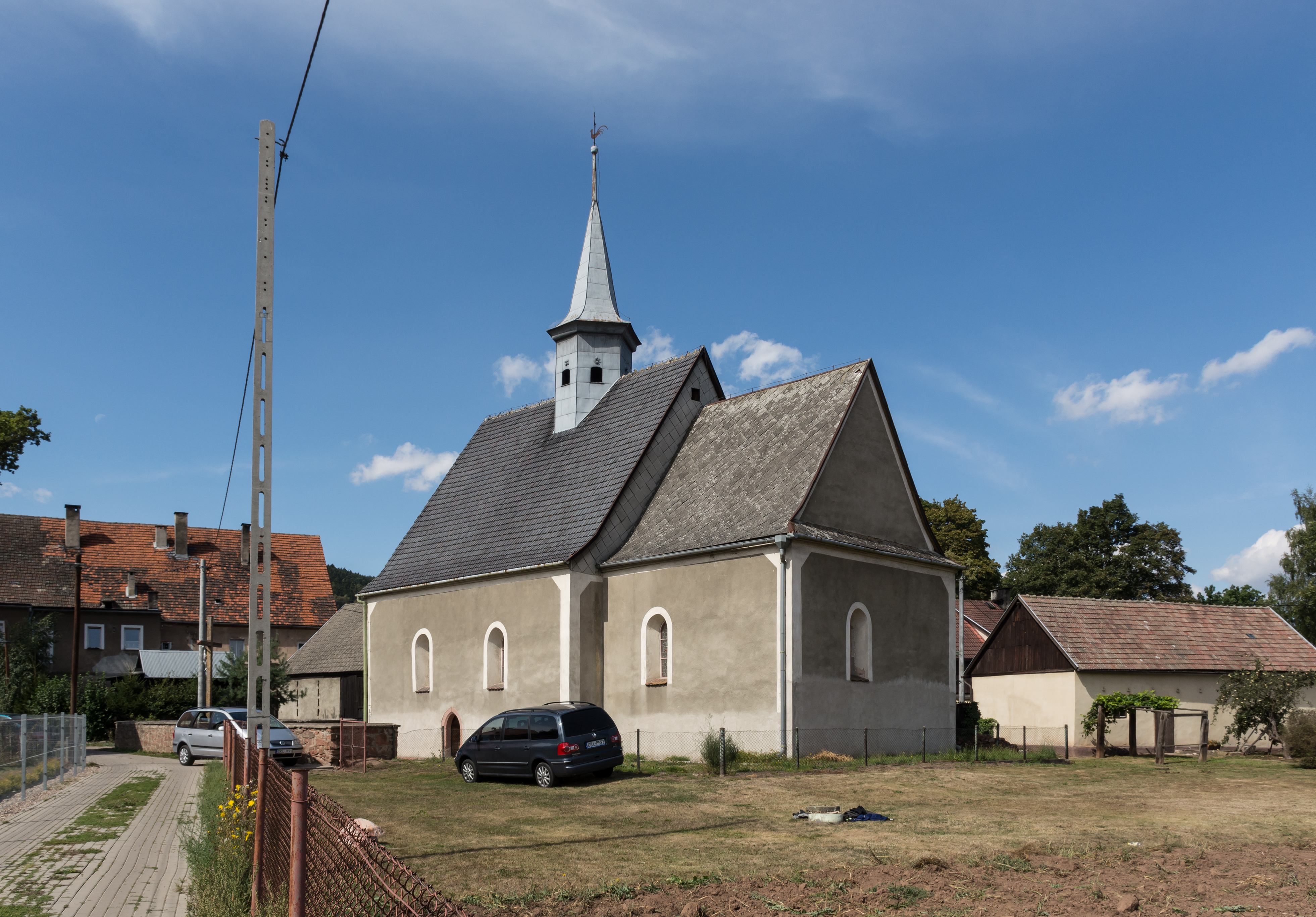 Corpus Christi church in Ścinawka Średnia